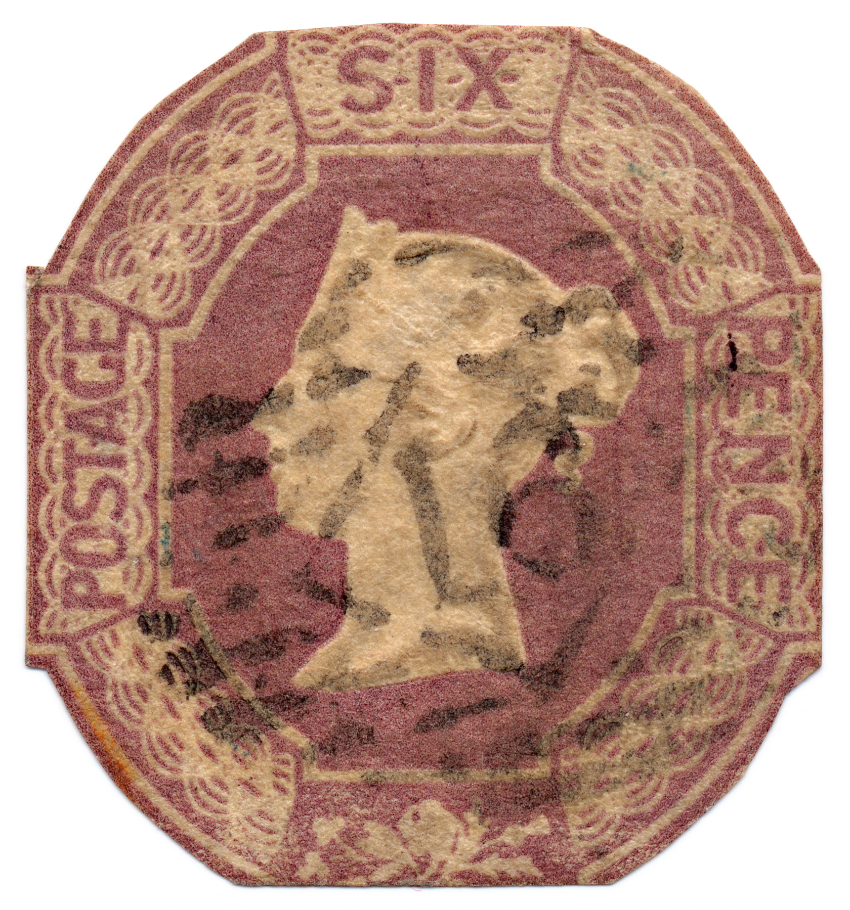 High resolution scan of an antique embossed stamp from Great Britain / United Kingdom. This one in particular features Queen Victoria, and to the best of my knowledge it was issued around the year 1854.